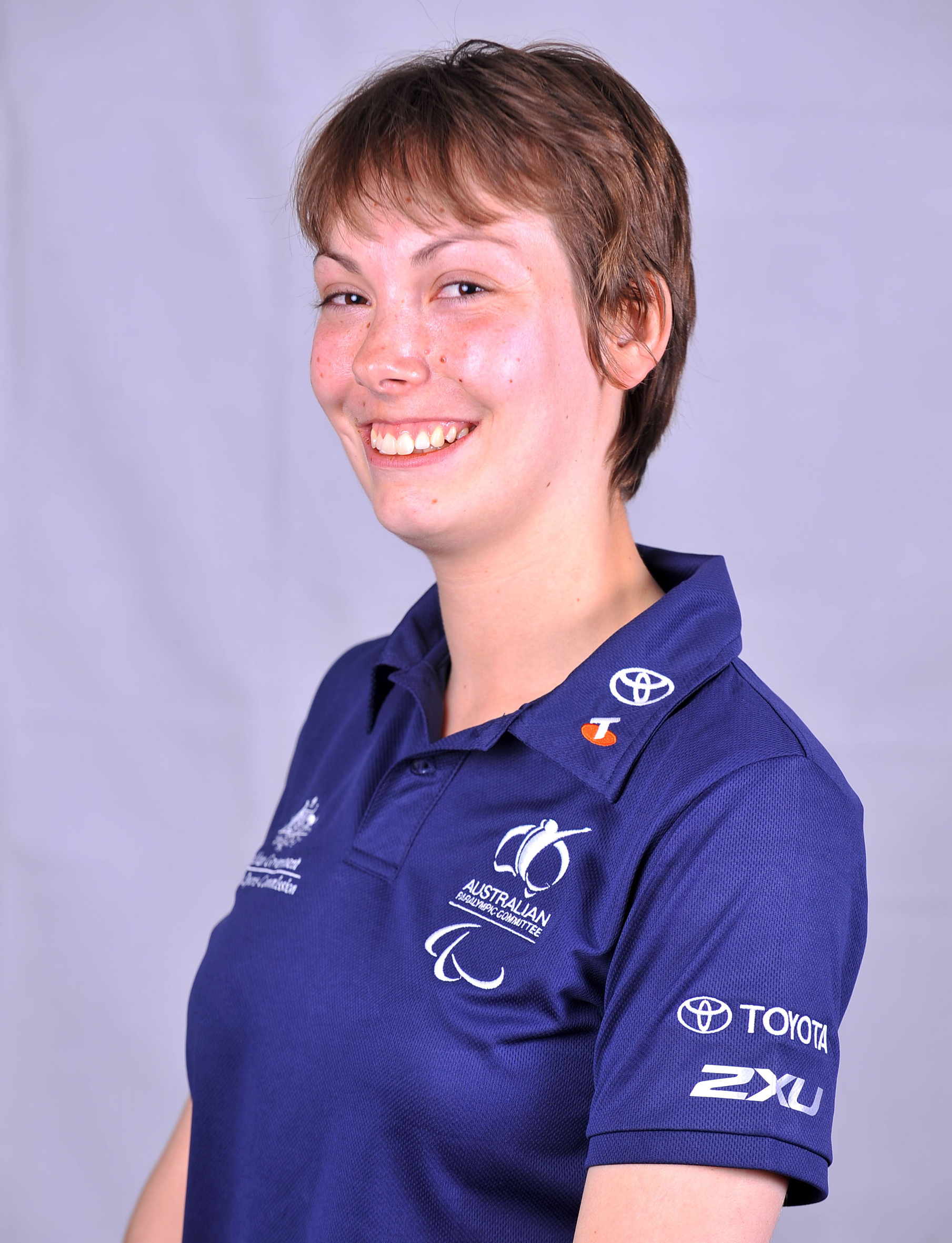 Portrait of Australian table tennis player Rebecca McDonnell, 2012 Australian Paralympic (shadow) Team athlete